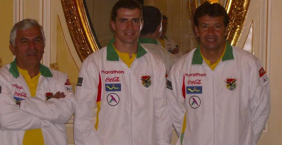 Ricardo Gomes da Silva with Bolivia National Football Team's coaching staff as a fitness coach after match against Argentina.; La Paz, Bolivia